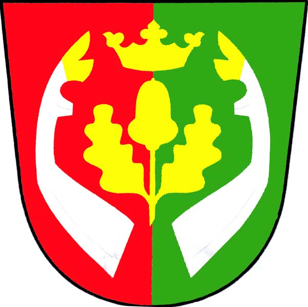 Coat of amrs of Dubenec , District Příbram, Czech Republic